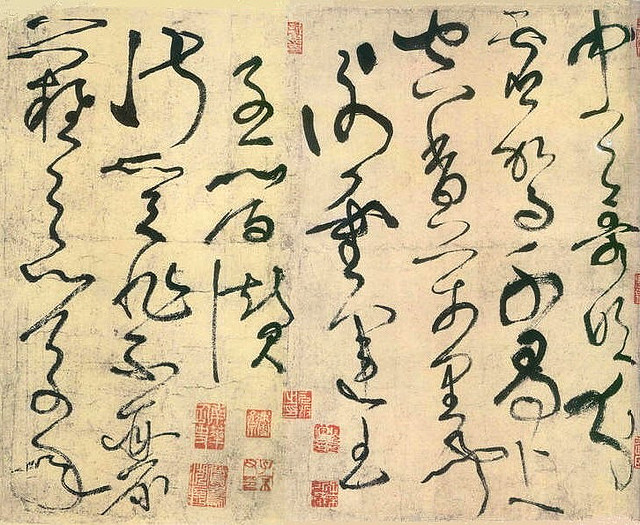 This image is by the Tang dynasty calligrapher Zhang Xu. Zhang was a calligrapher in Tang Dynasty China.